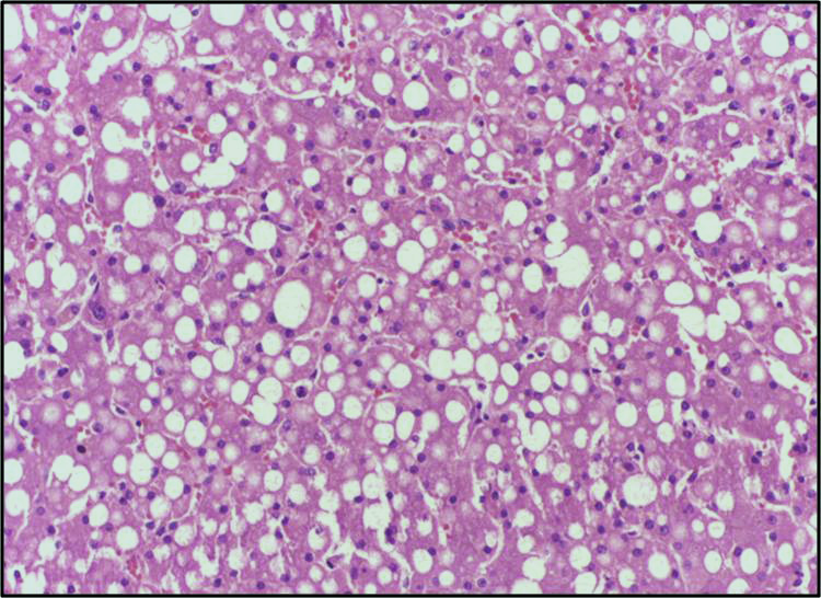 FATTY CHANGE LIVER: Hepatic parenchymal cell cytoplasm containing clear vacuoles containing fat of varying sizes, displacing the nucleus towards the periphery [H&E stain10X]